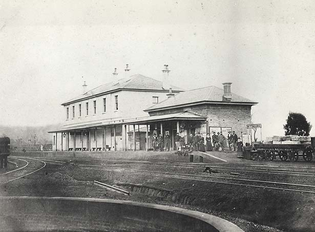 Mittagong Railway Station Dated: No date Digital ID: 17420_a014_a014000796 Rights: We'd love to hear from you if you use our photos. Many other photos in our collection are available to view and browse on our website using Photo Investigator.